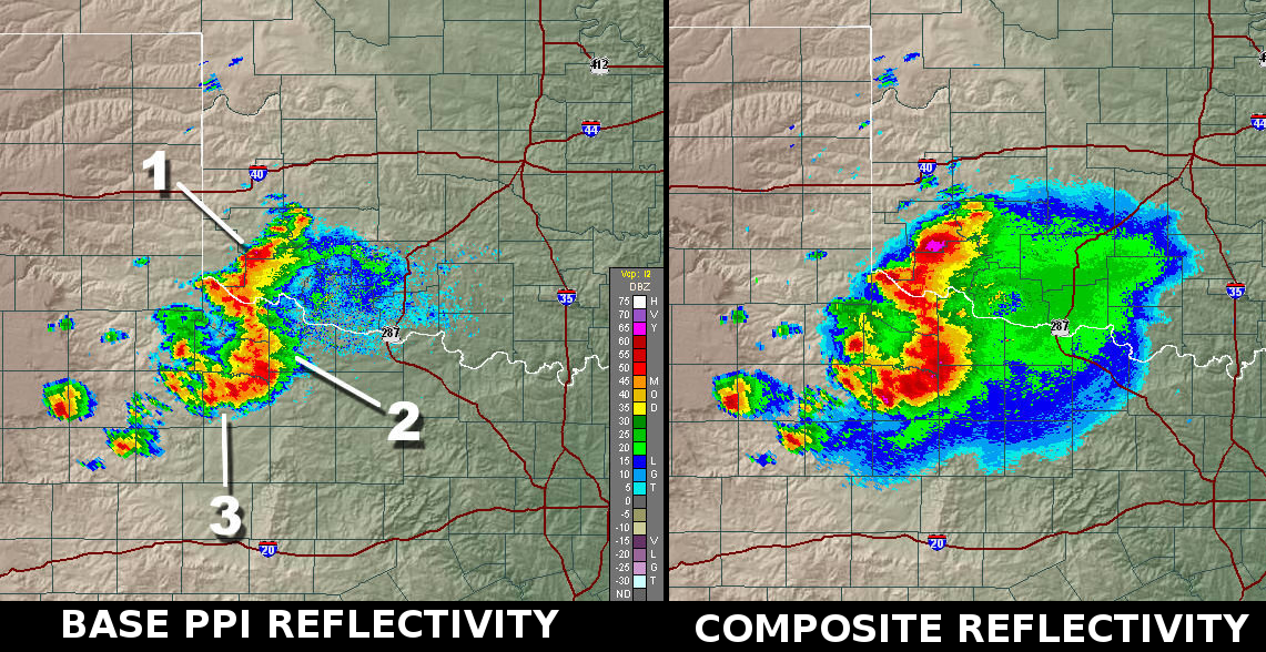 Reflectivity on the PPI low level of a NEXRAD weather radar on the left and Composite reflectivities on the right. The difference between the two shows precipitation at higher level not reaching the ground. In this case, the notches, at #1, the fuchsia-colored region, visible on the composite image, is all but missing on the base reflectivity. At #2 and #3, show more rain supported by strong updrafts.